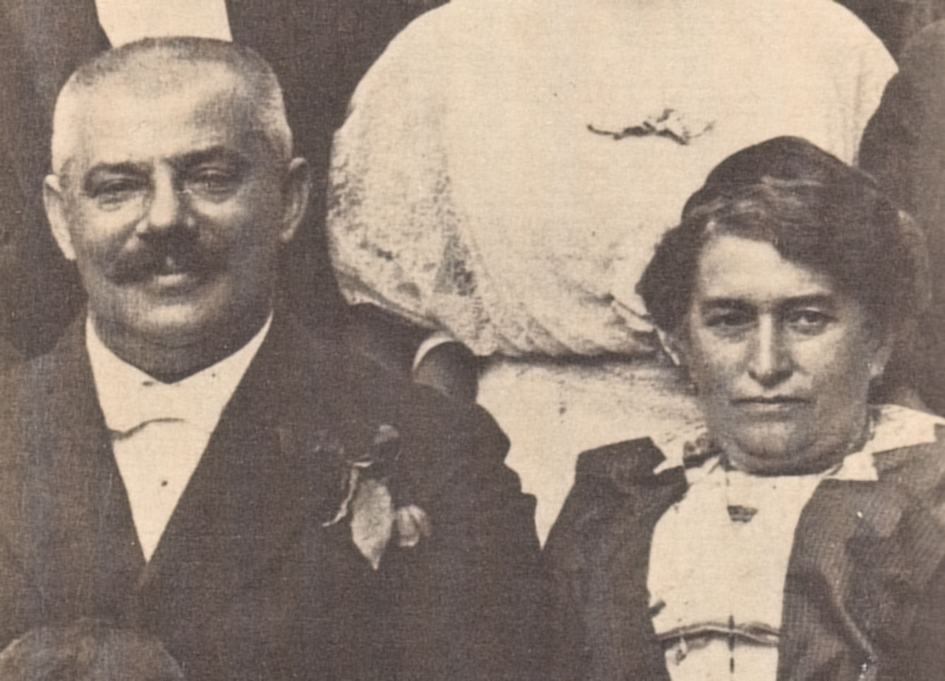 Franz Kafka's parents Hermann Kafka (1852–1931) and Julie (1856–1934)